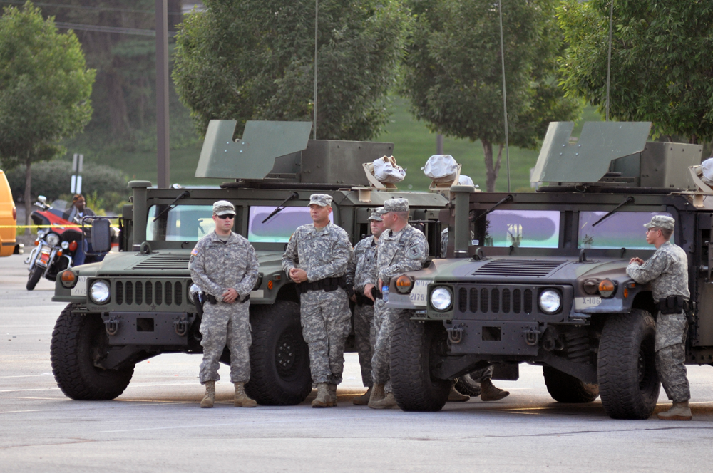 NG guarding the area.